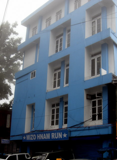 Mizo National Front Office